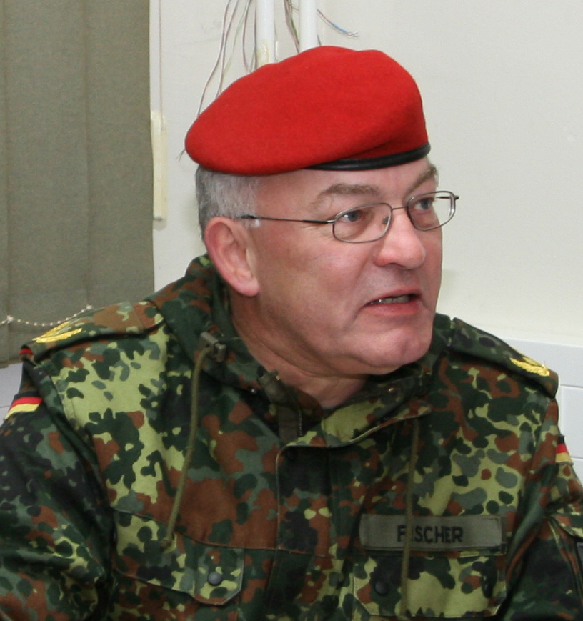 German Brigadier General Heinrich Fischer